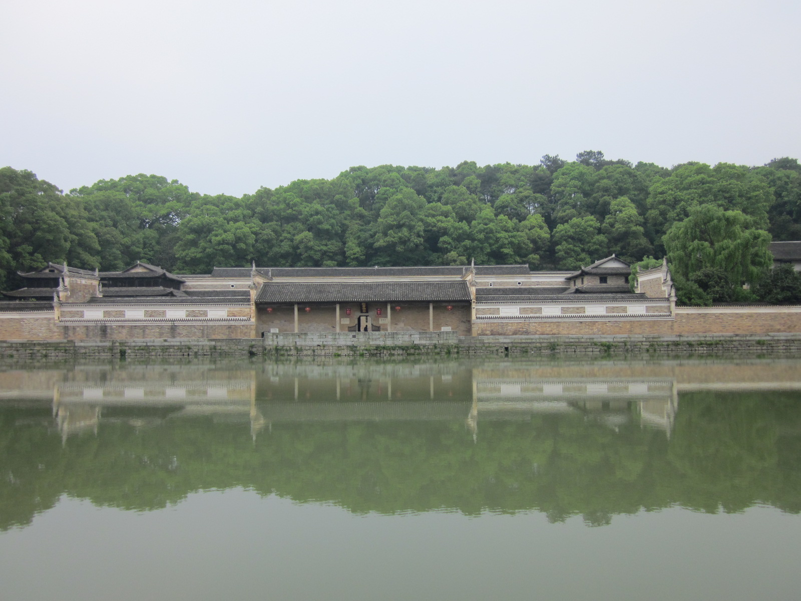 Tseng Kuo-fan's Former Residence. The house is fronted by a large ornamental pond.